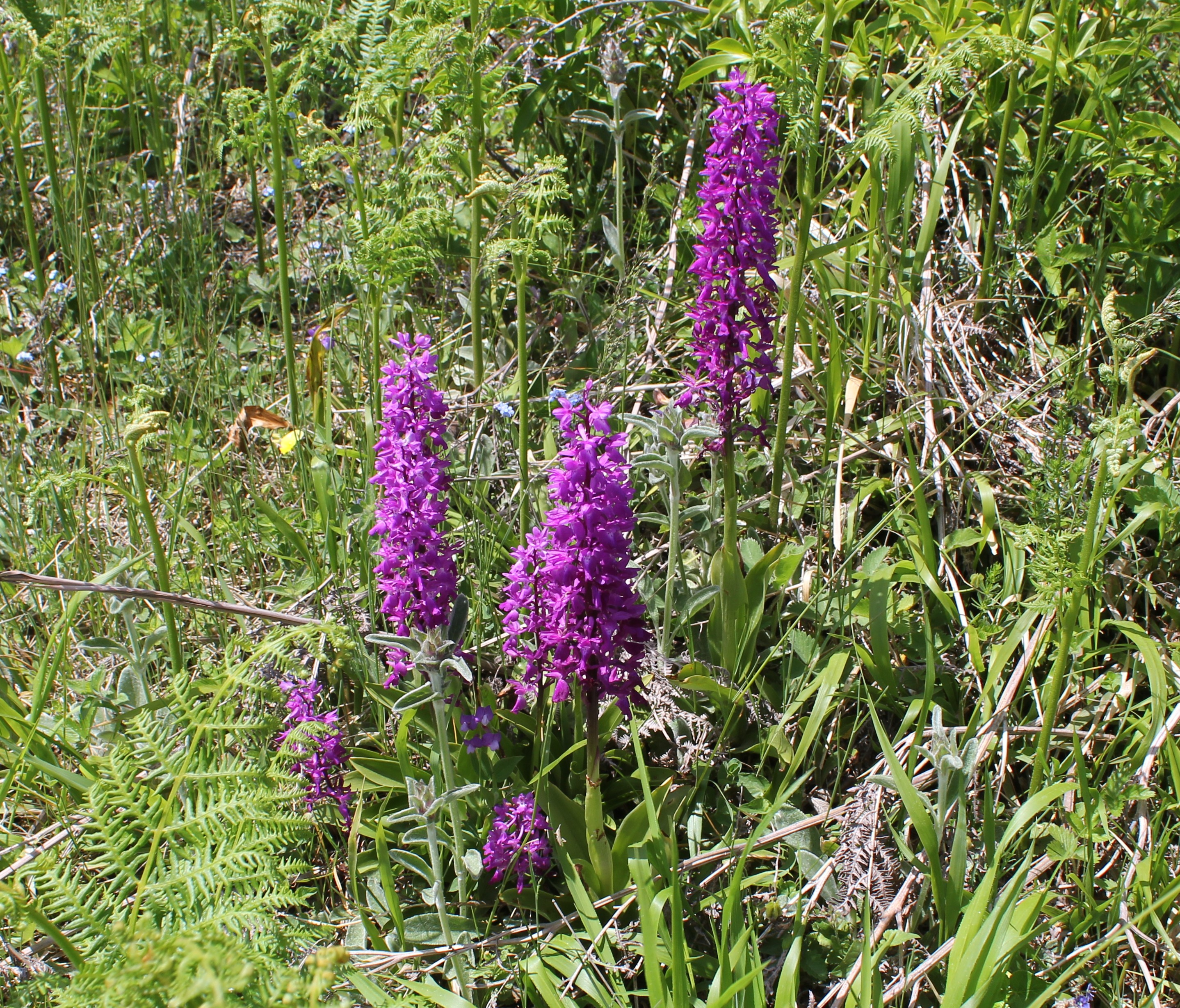 Orchis mascula general